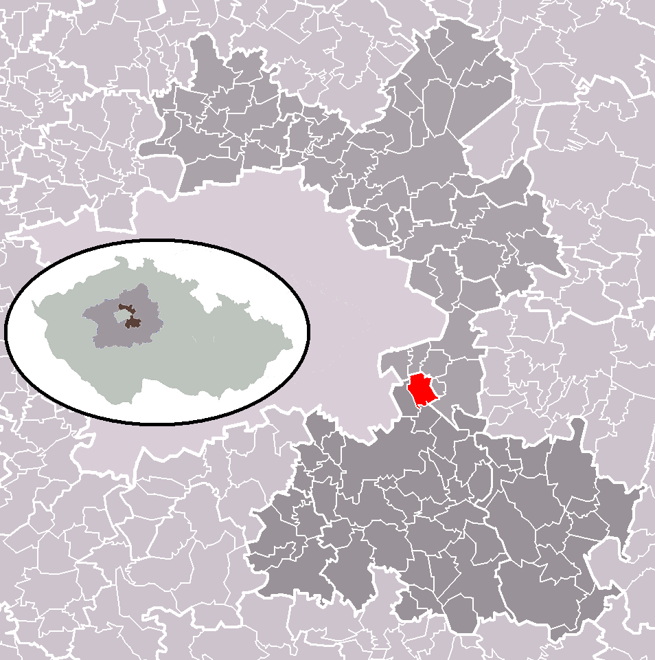 Location of Sluštice municipality within Prague-East District and administrative area of Říčany as a Municipality with Extended Competence.